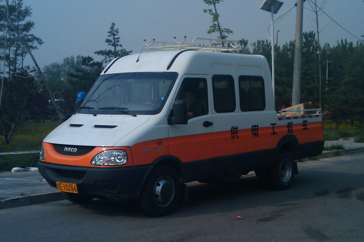 Chinese built Iveco Daily Mk3, in Beijing